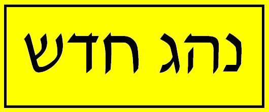 "New driver" sign (Nehag Khadash)